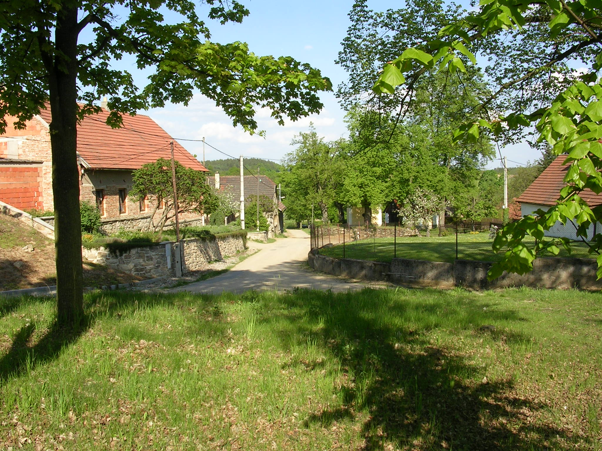 Postupice-Milovanice, Central Bohemian Region, the Czech Republic.